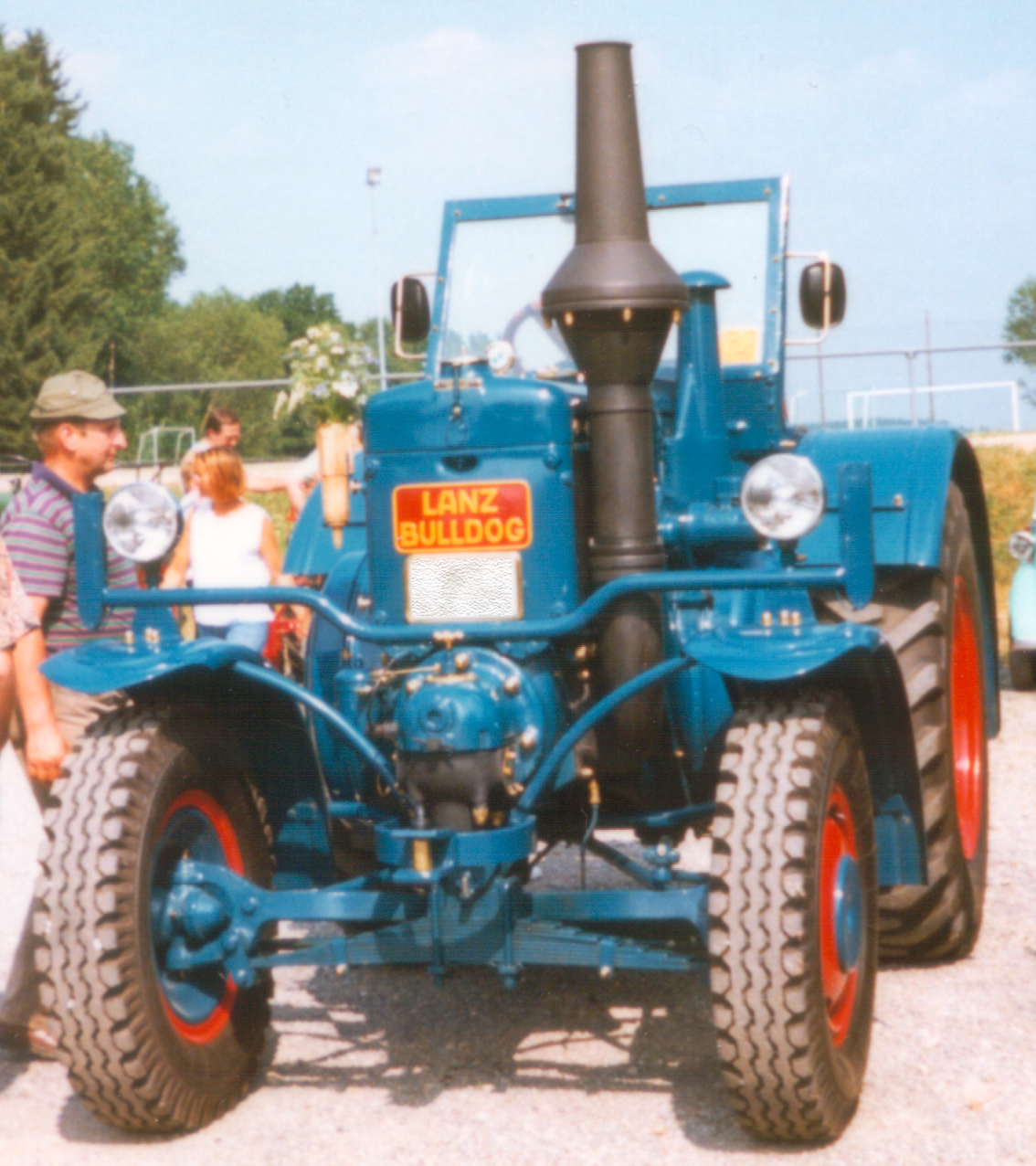 Lanz tractor, recorded in Germany